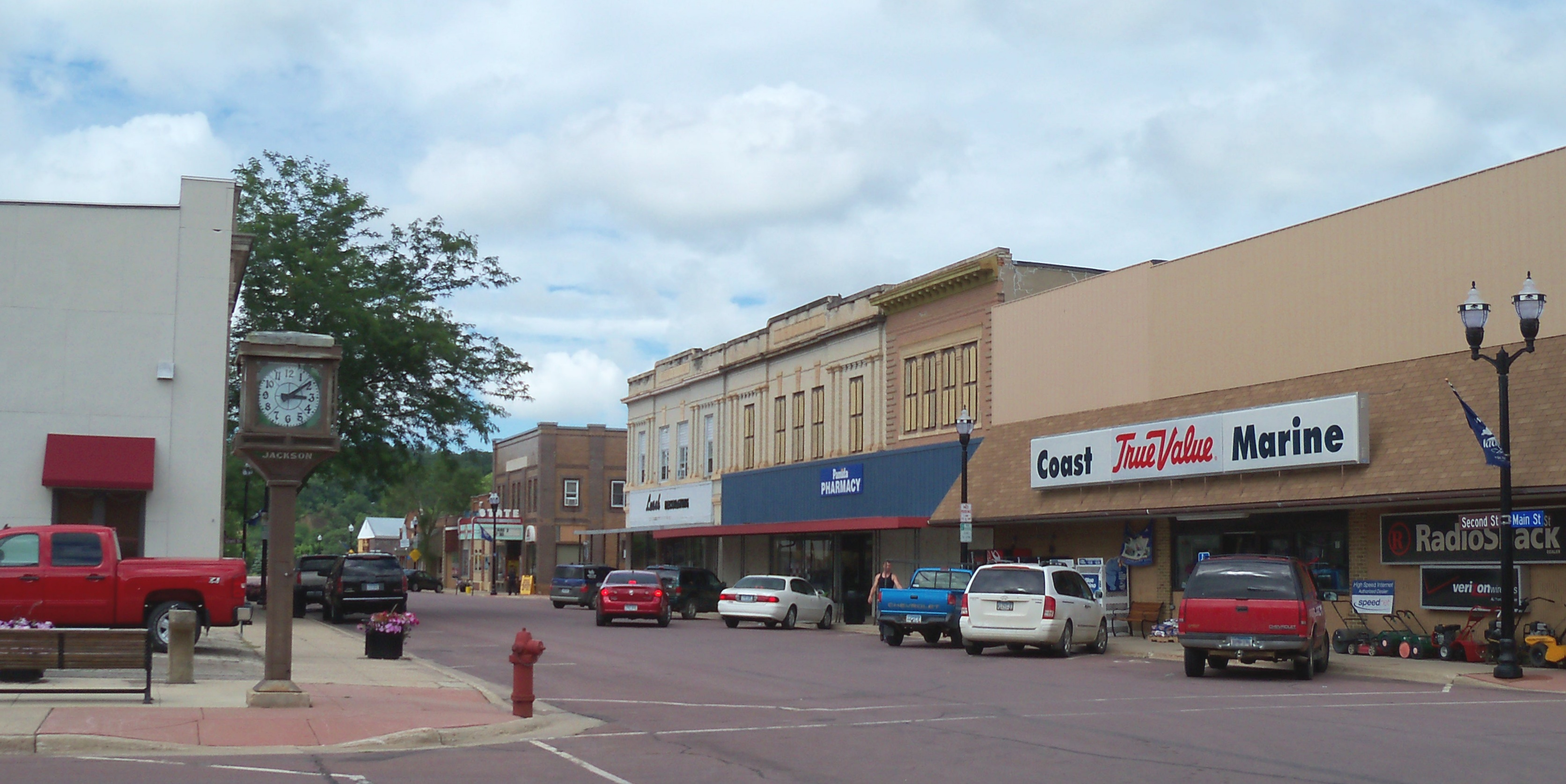 Downtown Jackson, Minnesota, USA.